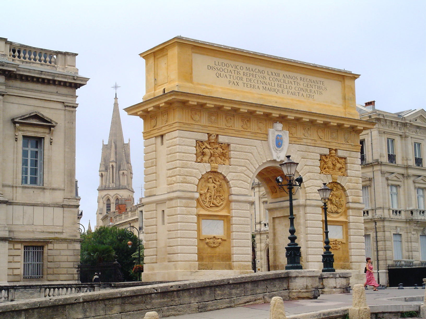 The triumphal arch of Peyrou, commissioned by Louis XIV, marks the entrance of the city of Montpellier. The Latin inscription reads, Ludovico Magno LXXII annos egnante dissociatis repressis conciliatis gentibus quartet ecennali pax bello conjuratis terra marique parta 1715 Translation: "Louis the Great reigned for 72 years, the nations who betrayed the alliance have been repressed and are reconciled to those who were united by oath during a war of four decades; peace has been made on land and sea, in 1715."